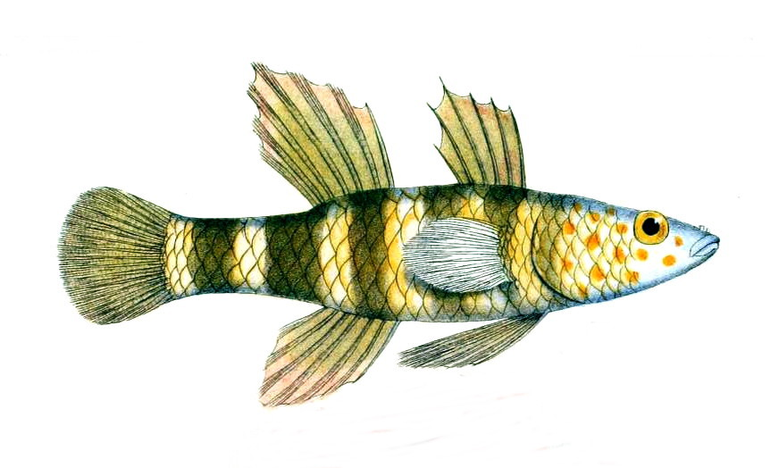 Calumia godeffroyi